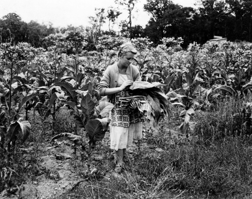 Picking ripe tobacco leaves at a farm in Manjimup, Western Australia